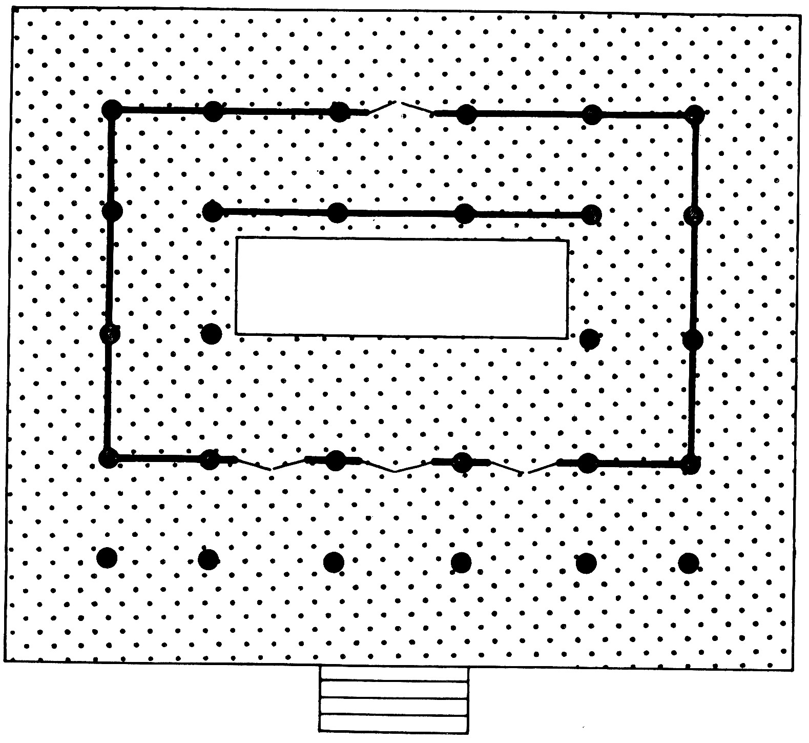 Layout of Kikô-ji main building